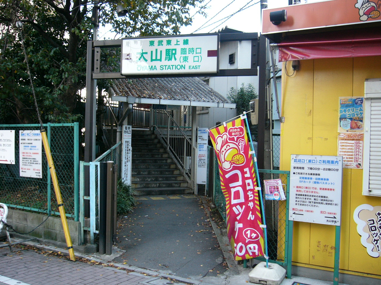 The east entrance at Oyama Station on the Tobu Tojo Line